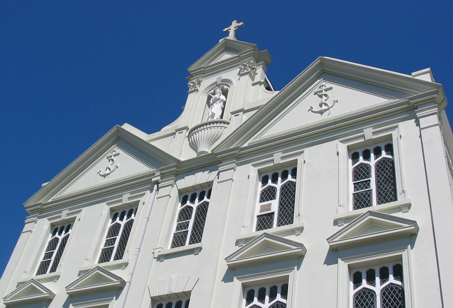 Highlands College, Jersey, anchors on façade as remnants of building's past as naval college